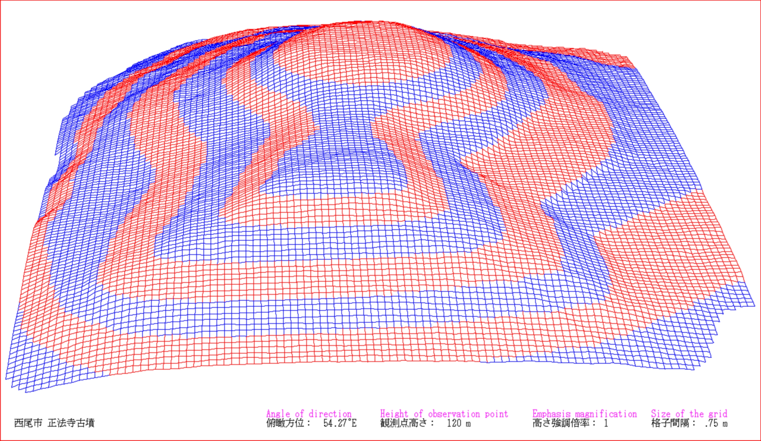 I who am a contributor drew the picture by a software which developed by myself. The survey map which I referred to depends on "「第2章 墳丘の発掘調査」『史跡正法寺古墳』吉良町教育委員会（2005年）". This is a drawing of present situation (not a drawing of a restored mound). The drawing depends on combination of wire frame and height eight phases classification. Perspective projection.